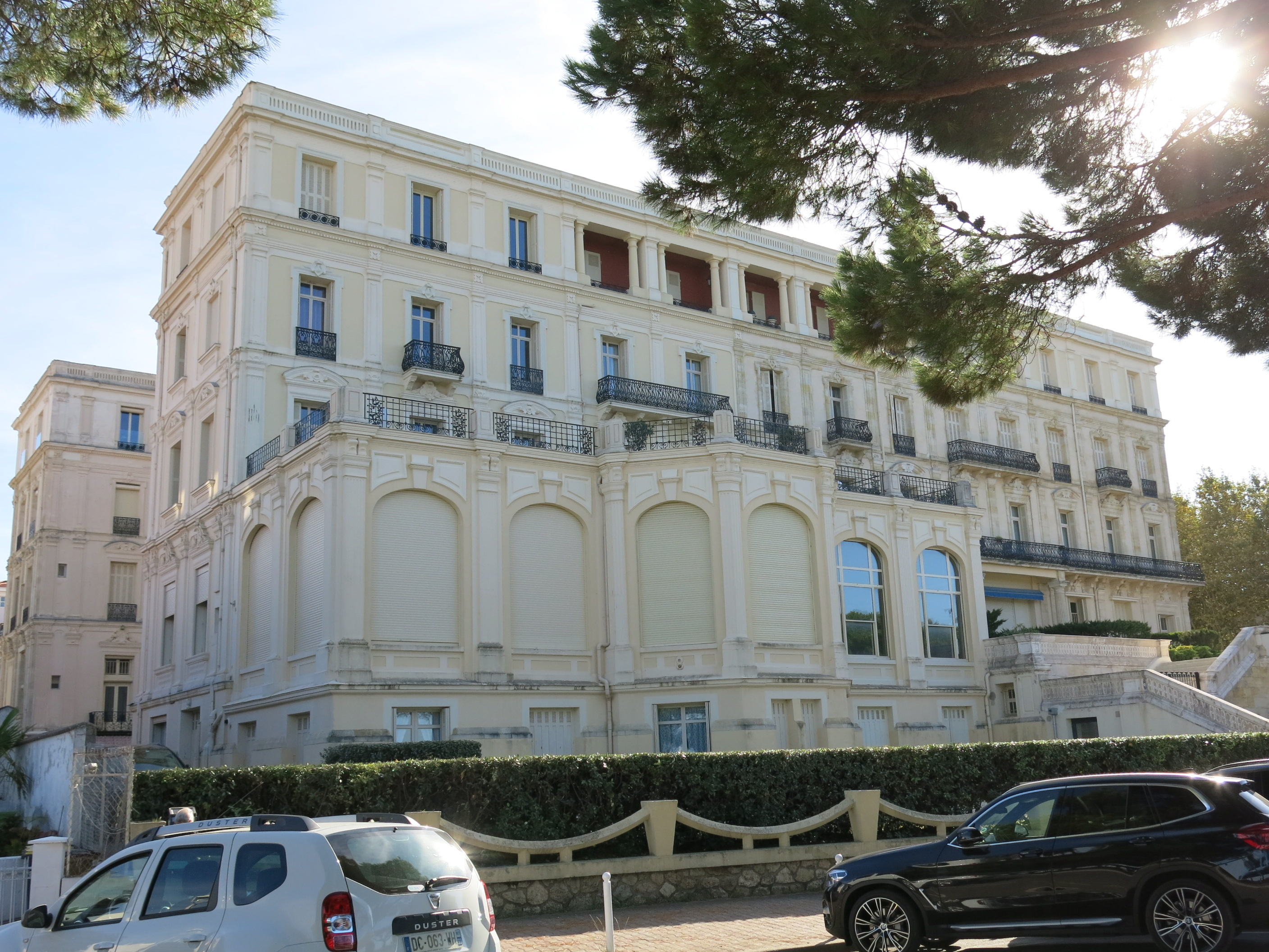 Facade of Grand Hotel of Arcachon (Gironde, France).